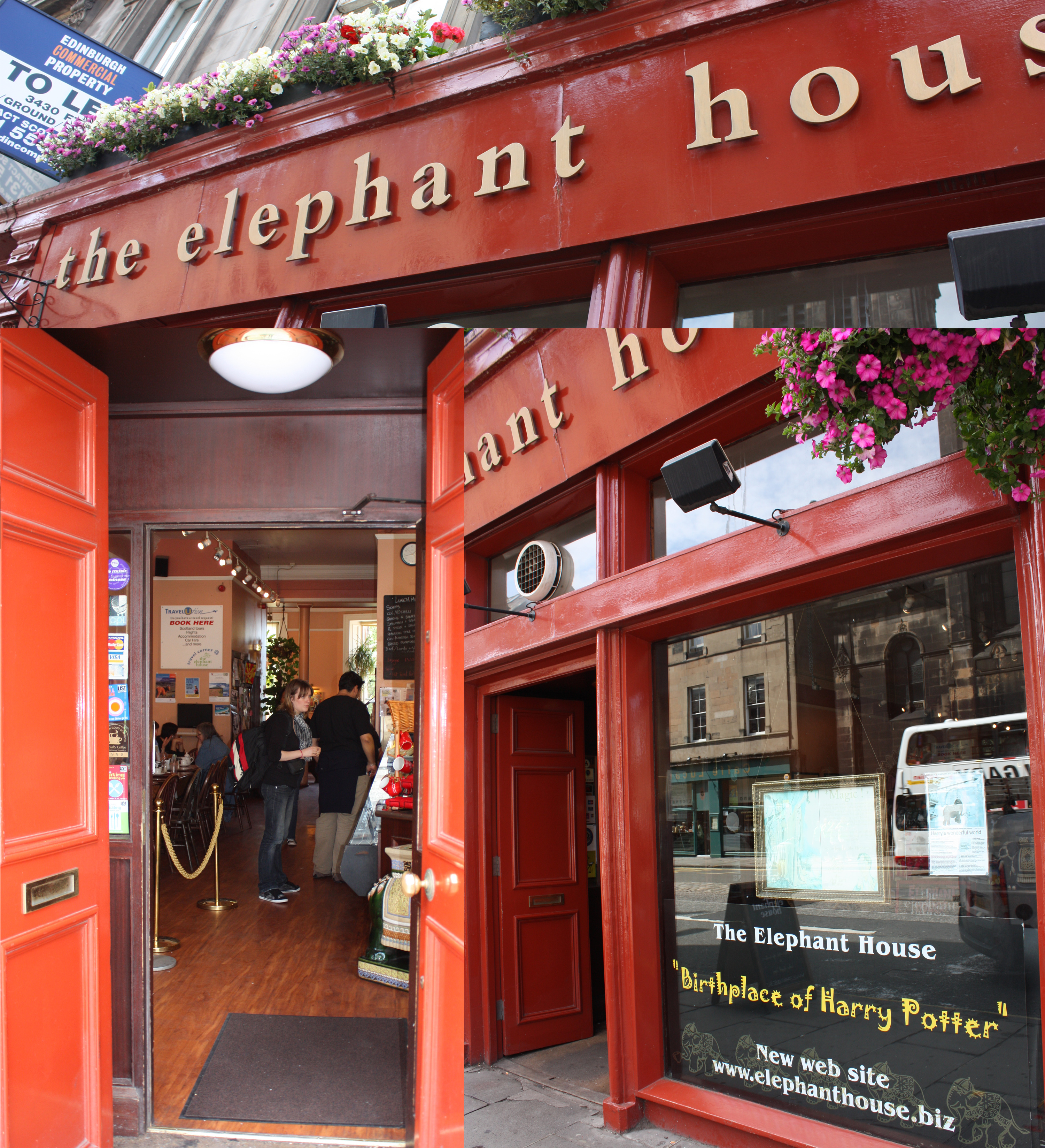 taken by: Nicolai Schäfer